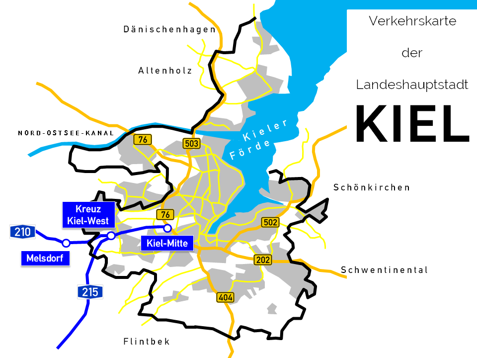 traffic map of Kiel - Kiel, Schleswig-Holstein, Germany